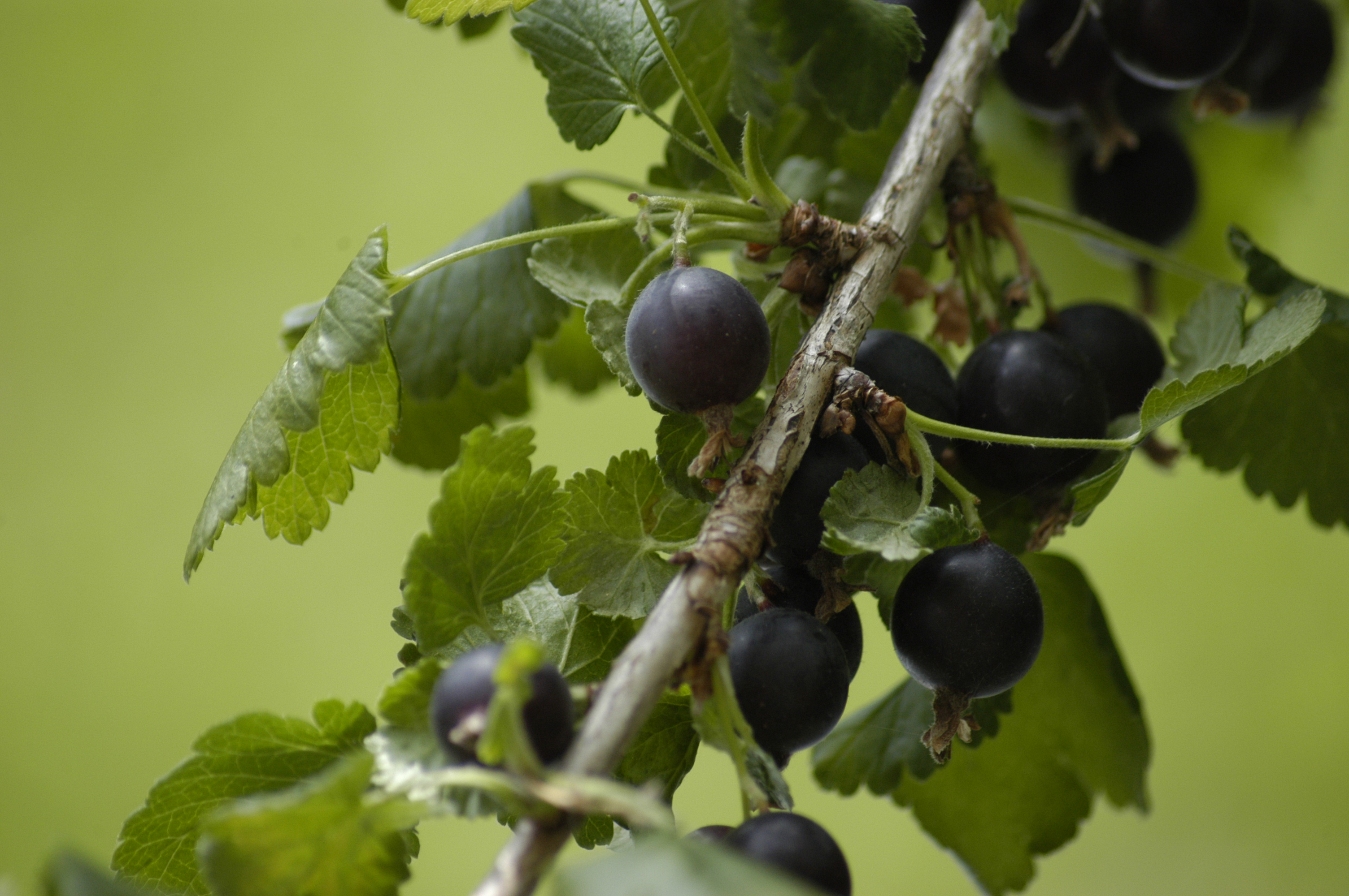 Jostaberry (Ribes nidigrolaria), fruits